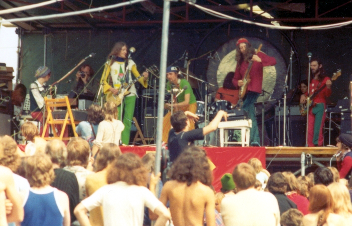 Gong playing Hyde Park free concert, 1974